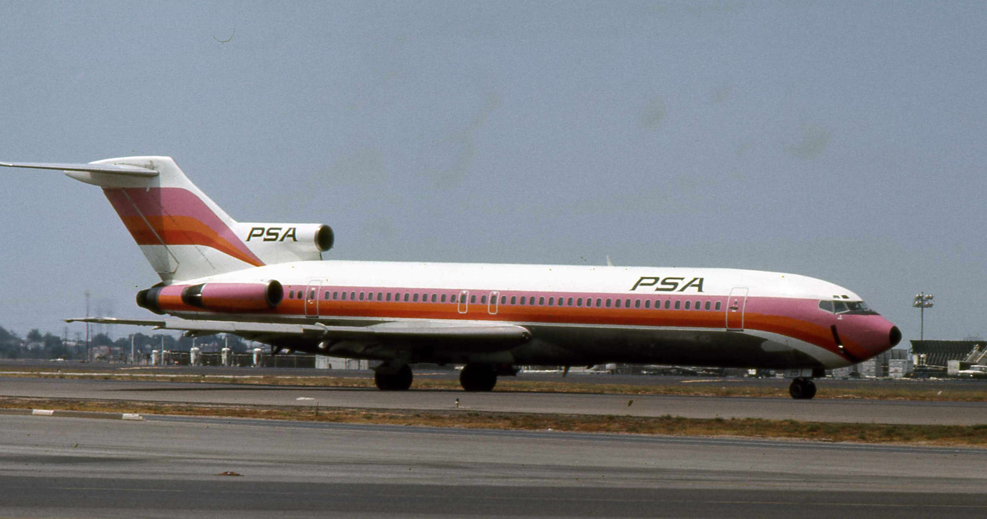 Pacific Southwest Airlines Boeing 727 taxiing at Los Angeles International Airport.